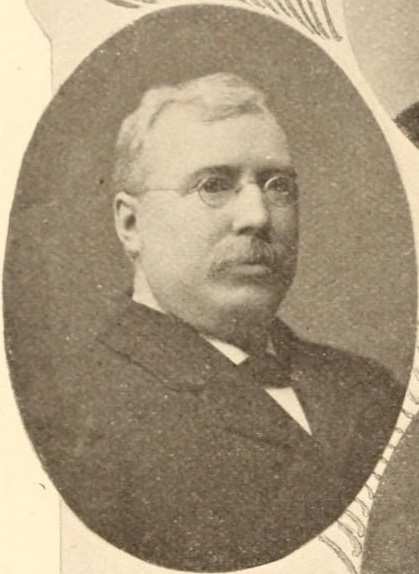 Portrait of New York assemblyman Michael Russell, of Rensselaer County